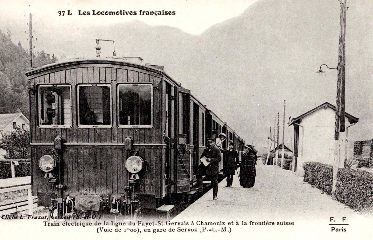 Postcard of the electric rack railway to Chamonix : Z 200 in Servoz station.